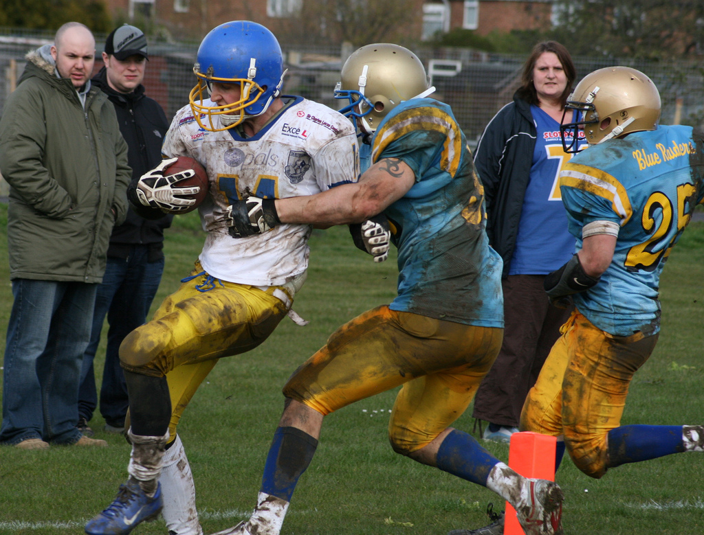 Colchester Gladiators RB Alex Robinson scores a touchdown against the Bedfordshire Blue Raiders